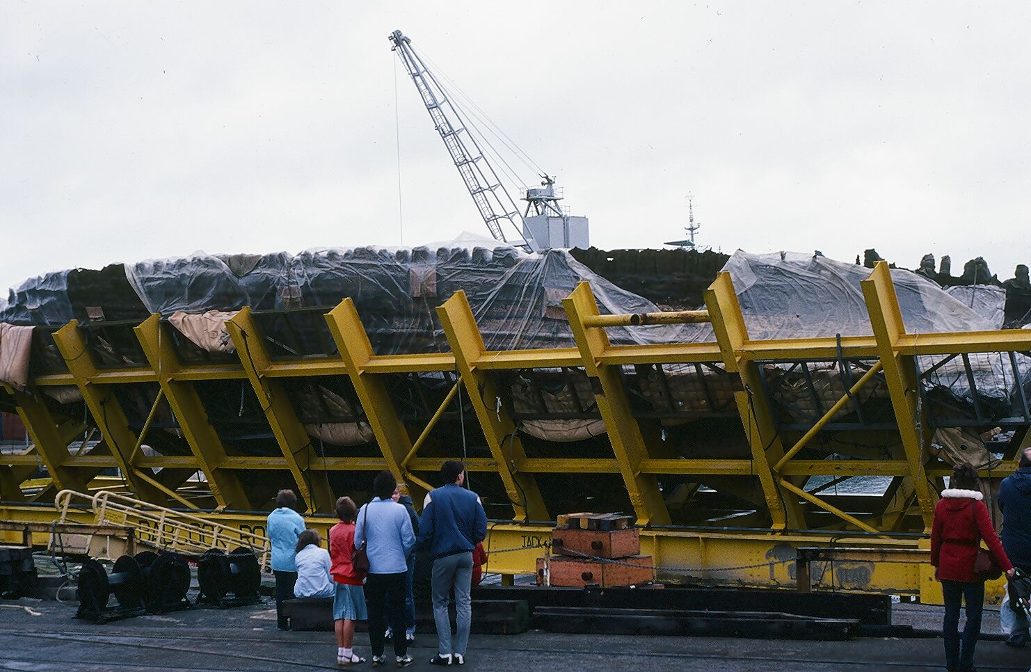 People viewing the salvage cage holding the Mary Rose 1982